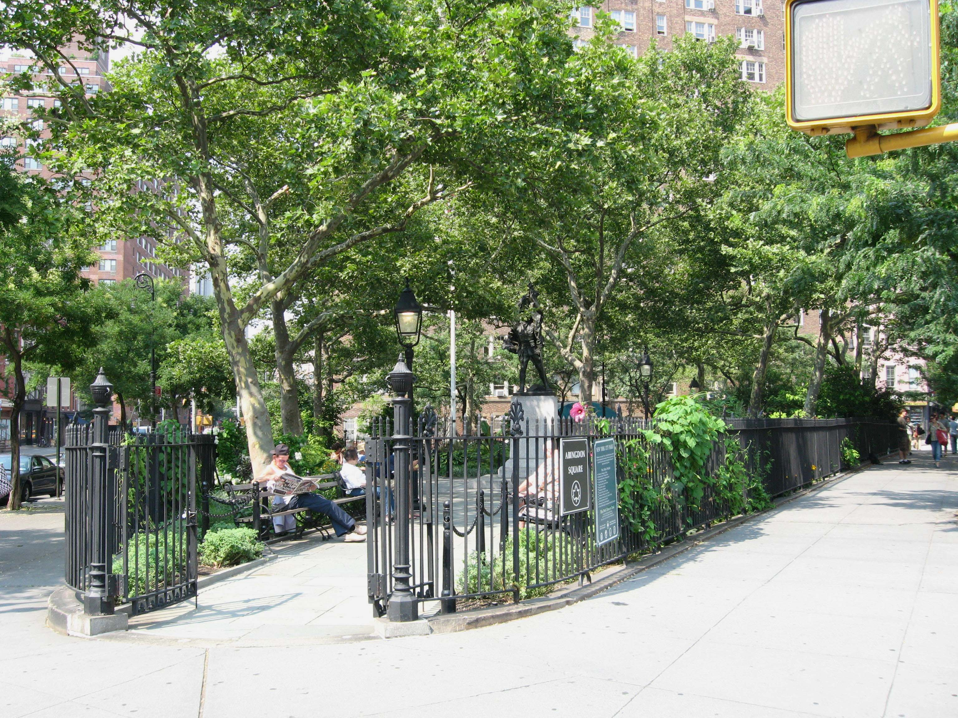 Looking north at Abindon Square Park on a sunny afternoon. See also Image:Abingdon Square Park.jpg